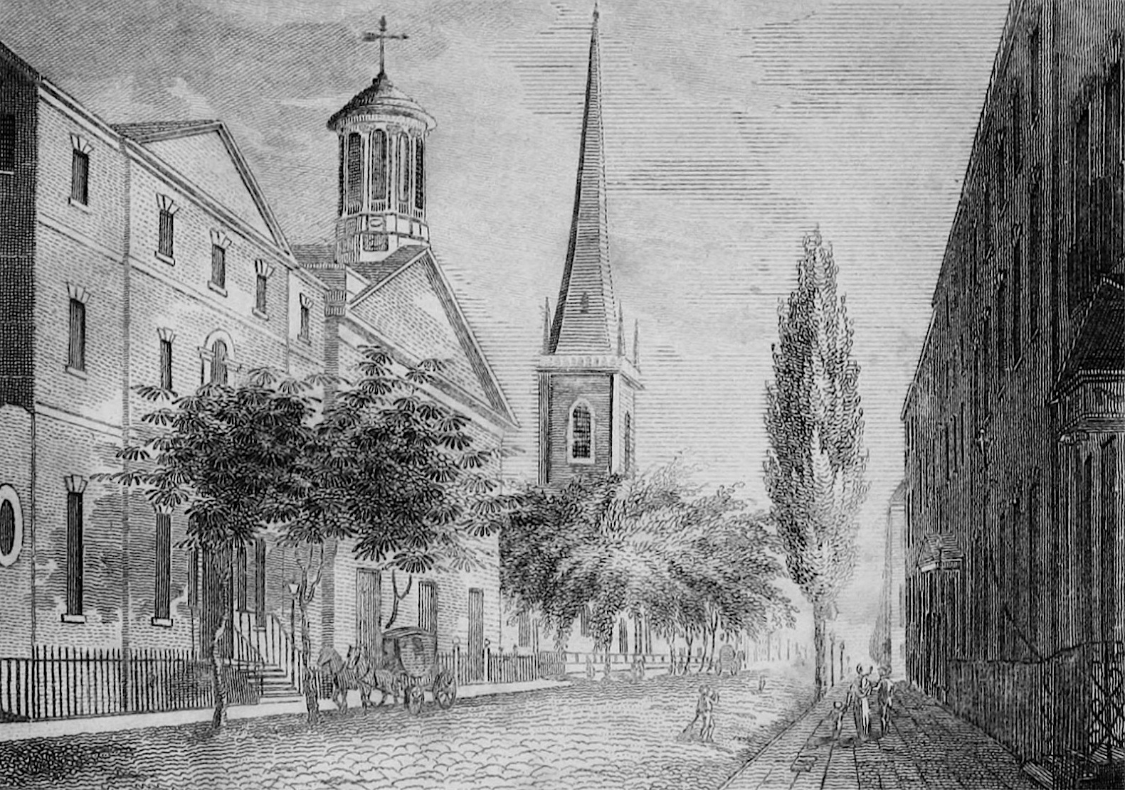 Caption reads: "VIEW OF BROADWAY NEAR GRACE CHURCH." Credit line reads: "A. J. Stansbury. Rawdon, Clark & Co. Sc." Text (p. 217) reads: "Was erected in 1809, as an independent church. It is a substantial and neat edifice of brick, with a handsome cupola; the rear of the building is in elliptical form, with a terraced garden, and the Rector's house adjoining.…" At center, the steeple of the second Trinity Church.